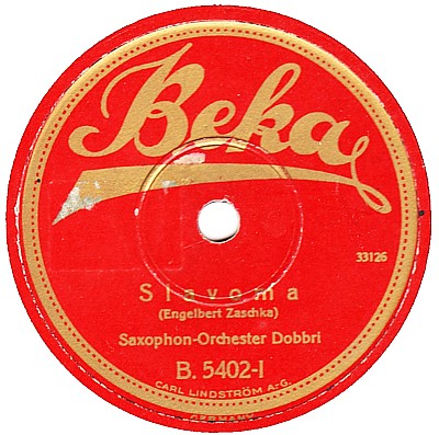 Beka B.5402-I, Carl Lindström AG, Slawoma - Der neueste Tanz (Slavoma) by Engelbert Zaschka. Saxophon-Orchester Dobbri of Berlin, 1925.